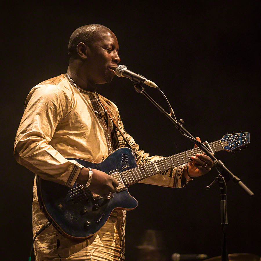 Vieux Farka Touré performs at Cosmopolite Scene in Oslo on 09.03.2016. “The Hendrix of the Sahara” visited Oslo for the Frankofoni festival.Lineup:Vieux Farka Touré (vocal and guitar)Jean-Paul Melindji (drums)Valery Assouan (bass)